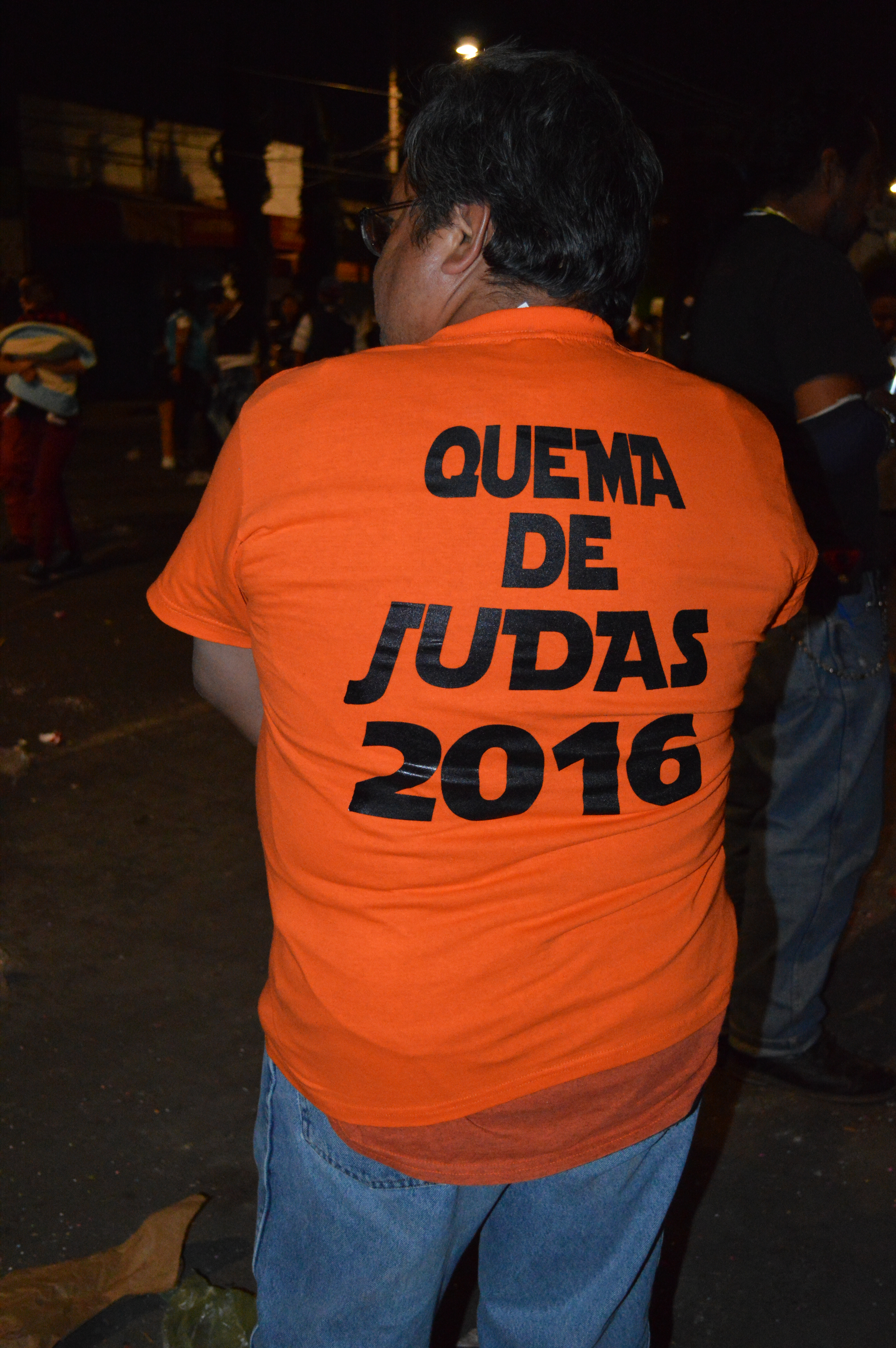 Alejandro Linares with commemorative T-shirt of the 2016 Burning in front of the Linares family home and workshop in Mexico City